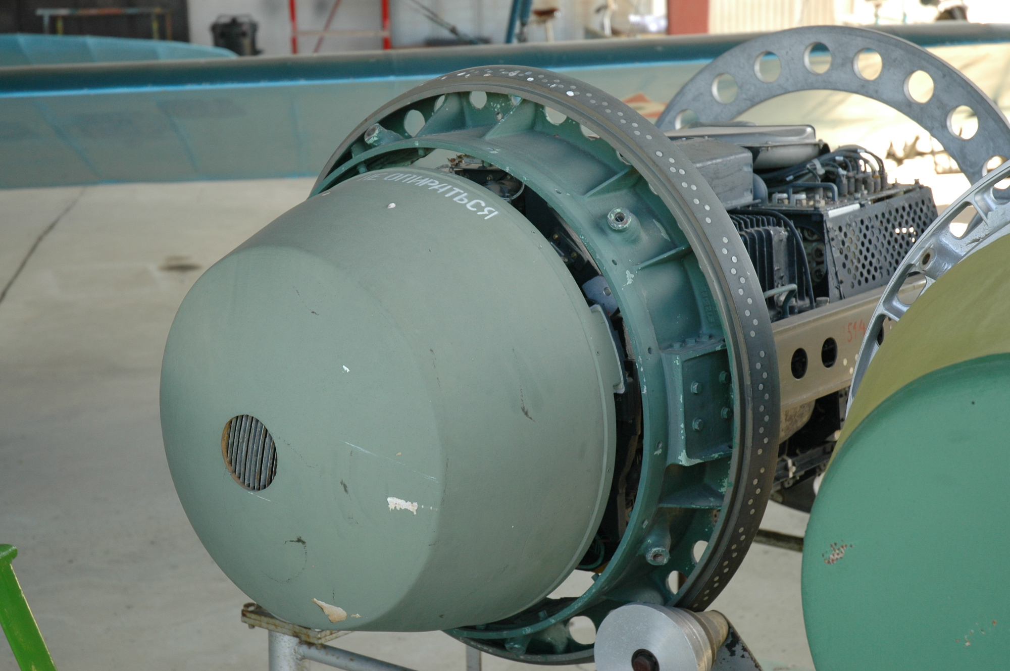 RP-21MA radar (used on MiG-21MF), displayed at the Hungarian Aviation Museum, Szolnok